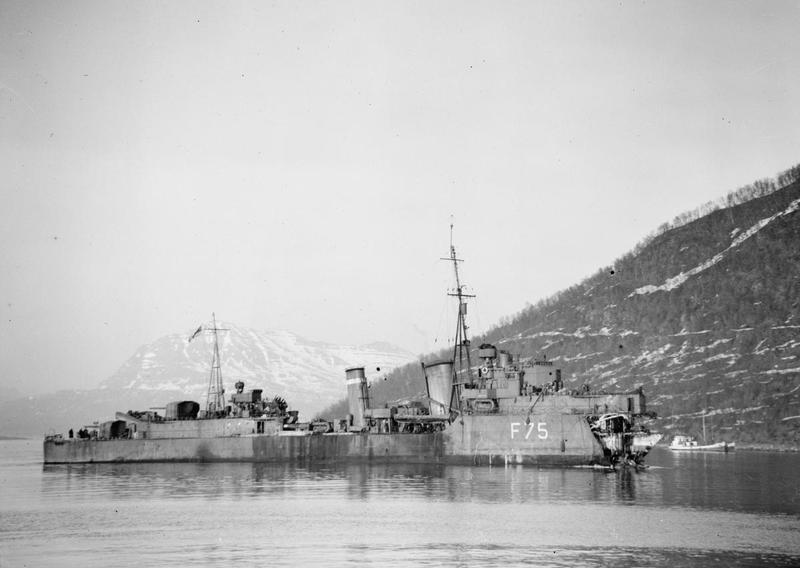 The Norwegian Campaign 1940- Naval Operations The Second Battle of Narvik, 13 April 1940: HMS ESKIMO in Narvik fiord after being damaged by a torpedo fired from the German destroyer GEORG THIELE.